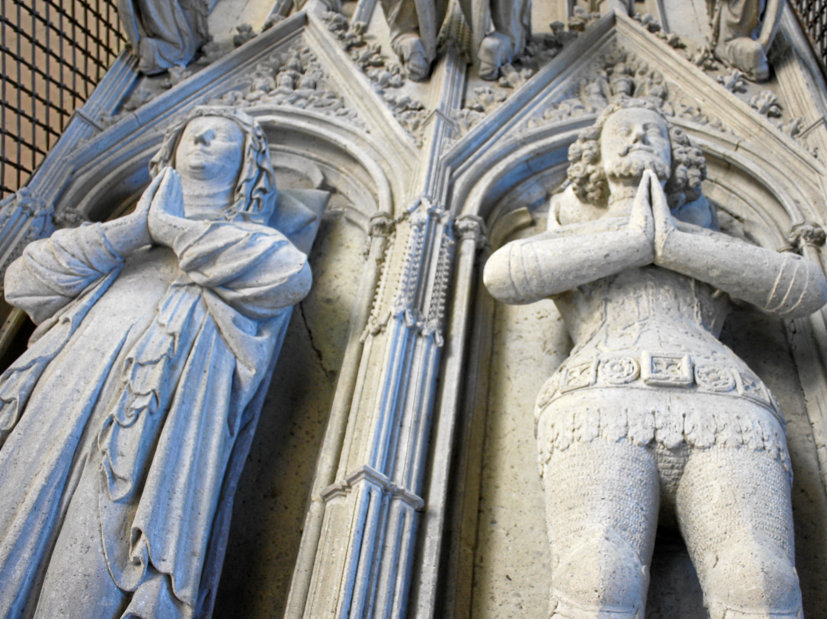 "Bergischer Dom" in Odenthal-Altenberg, Germany. Grave of Gerhard I. Count of Jülich-Berg and his wife Margarete.